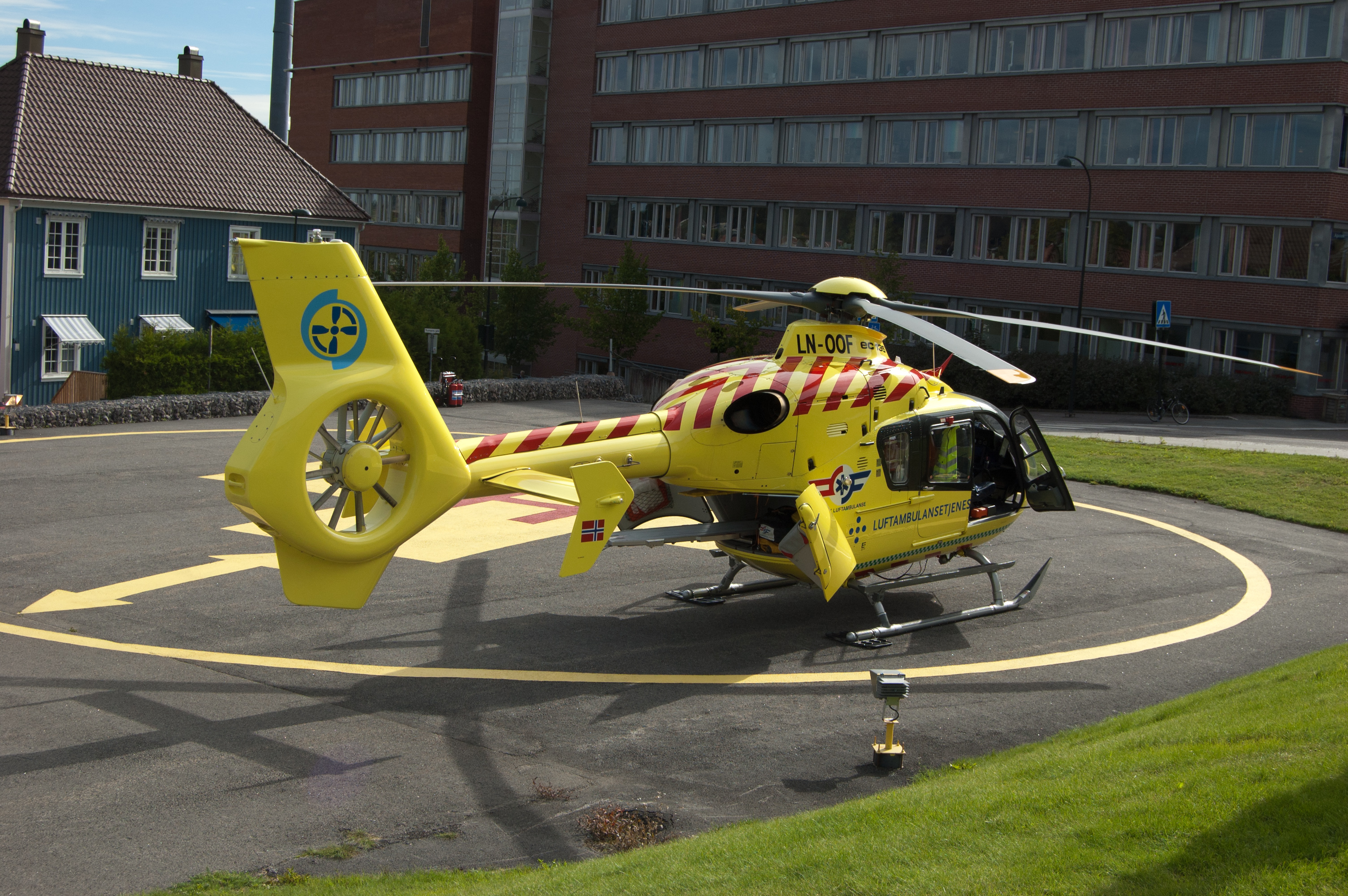 Norsk Luftambulanse, Eurocopter EC 135, LN-OOF, at Sykehuset i Vestfold, Tønsberg, Norway